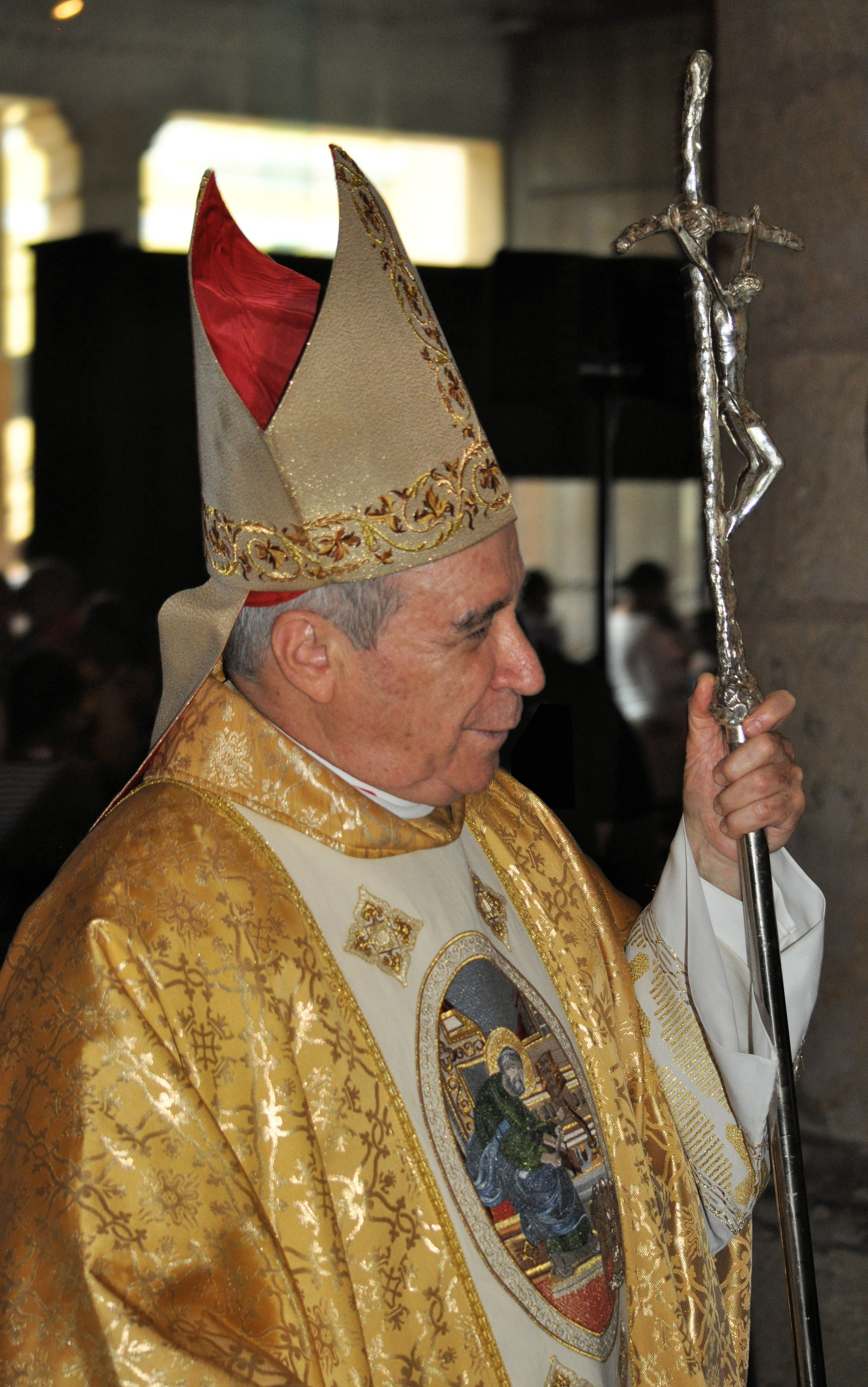 Cardinal Nicolás de Jesús López Rodríguez - Cathedral Primada of Americas - Easter Sunday 2013